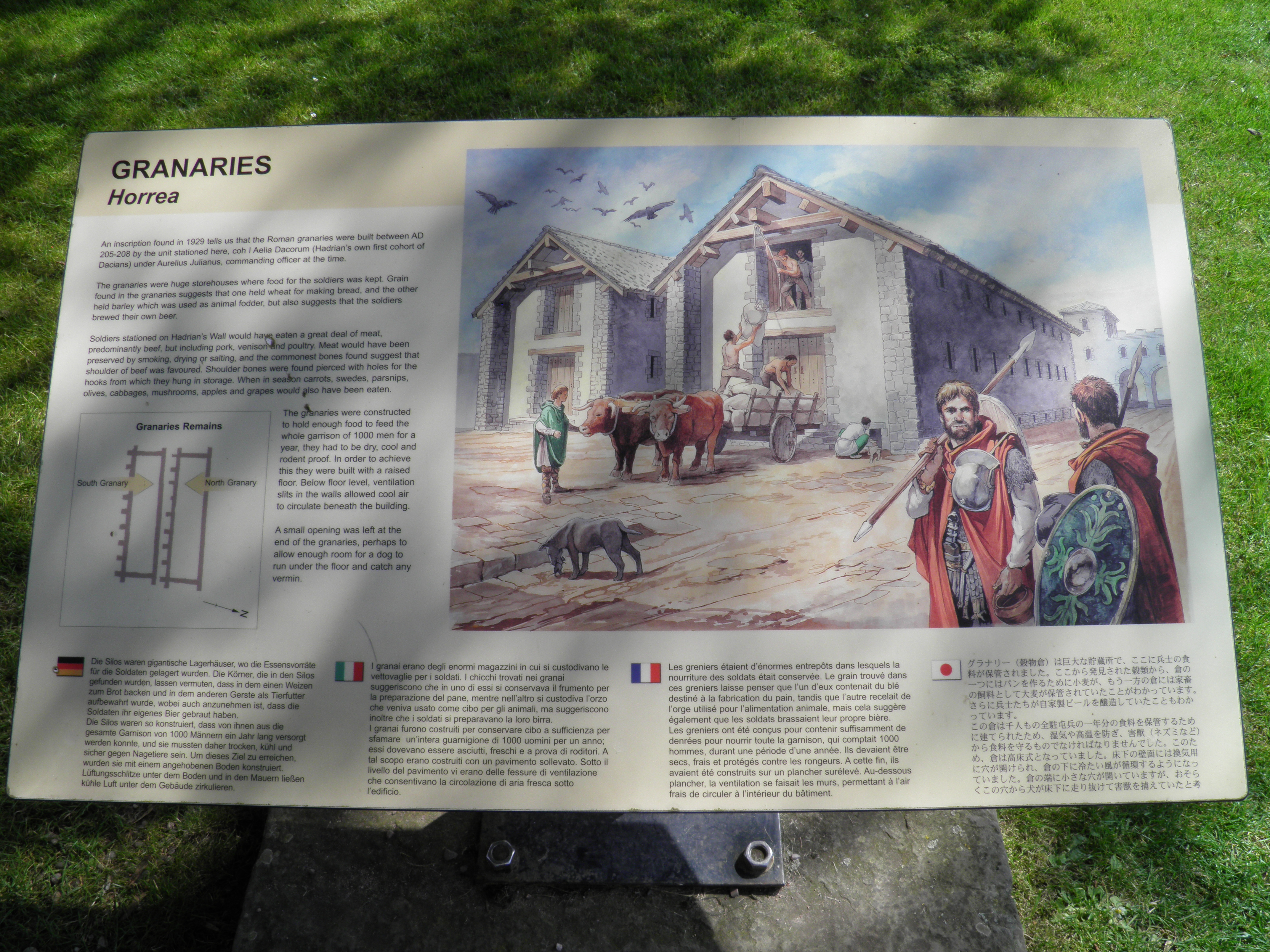 Birdoswald Roman Fort, Hadrian's Wall